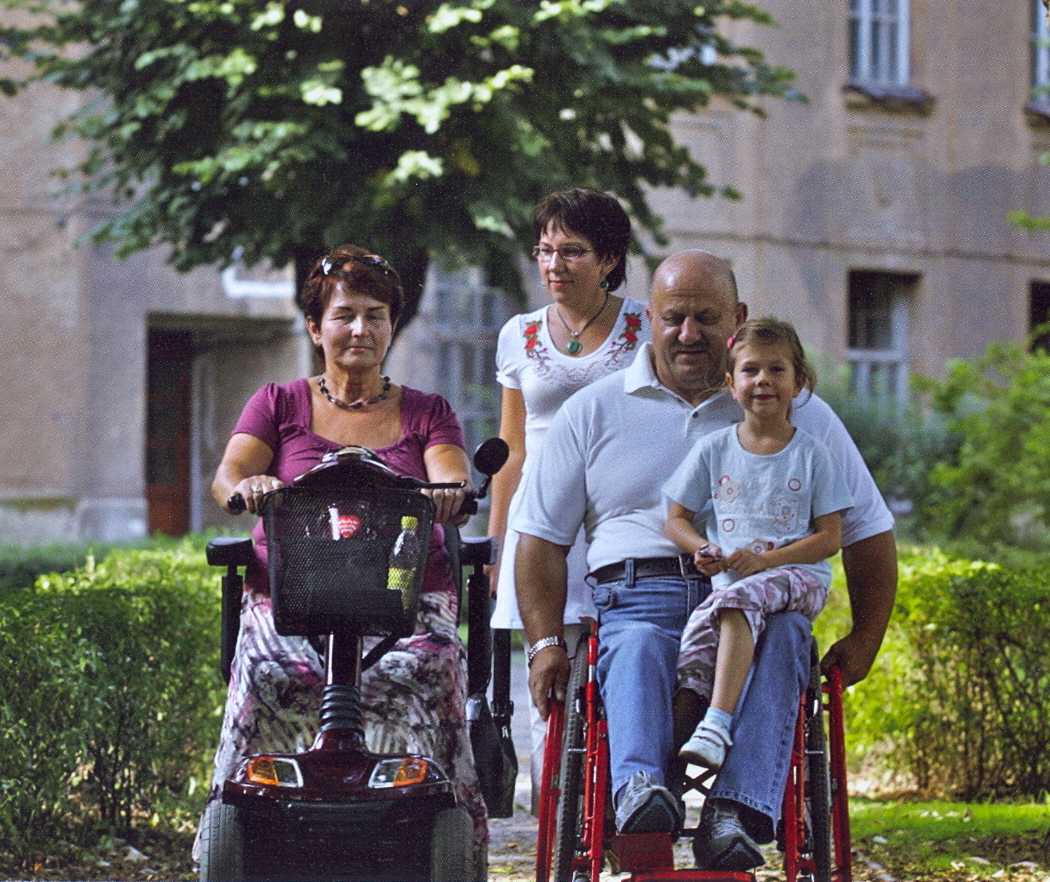 Barbara Tomaszewska z rodziną.